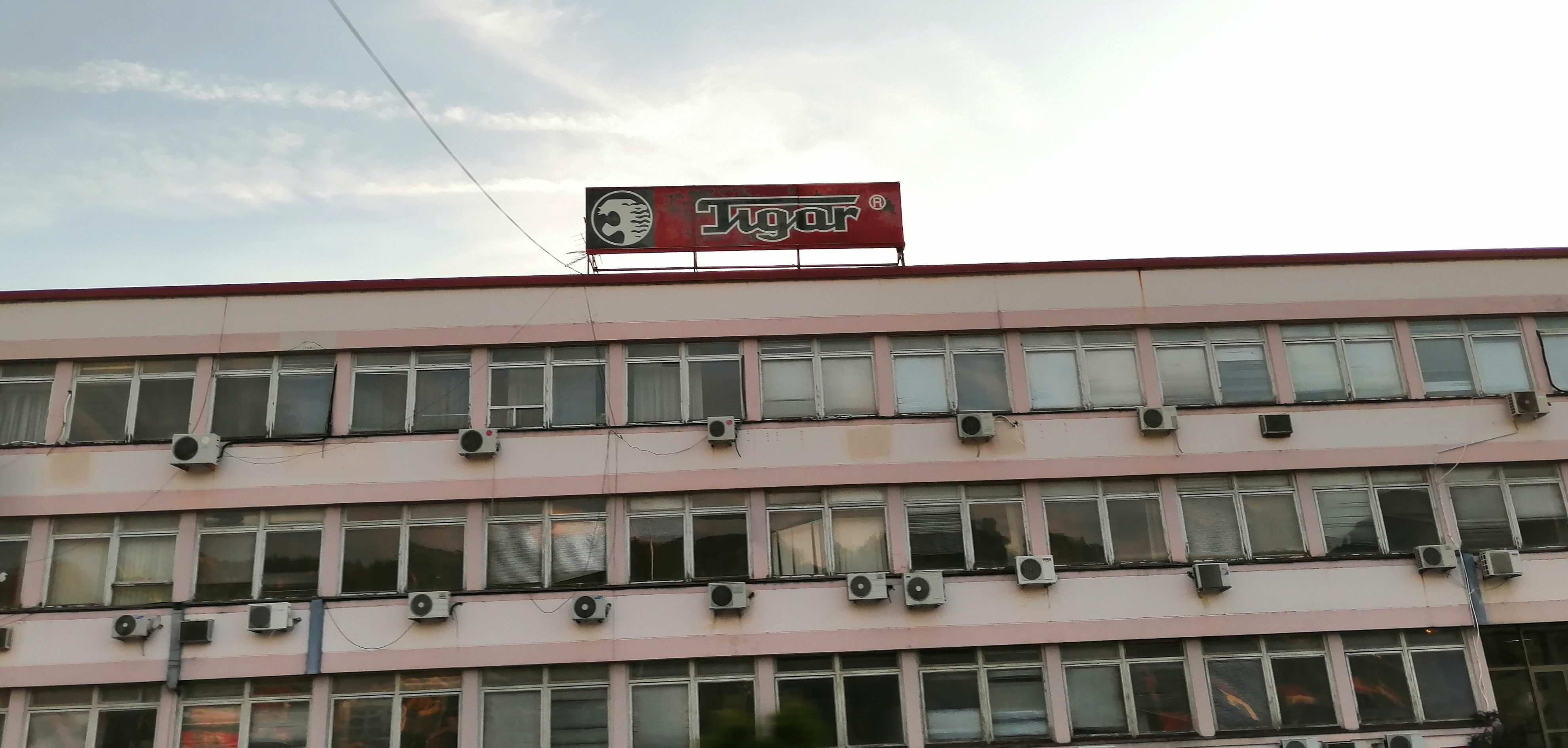 The administrative building of the Tigar Pirot factory